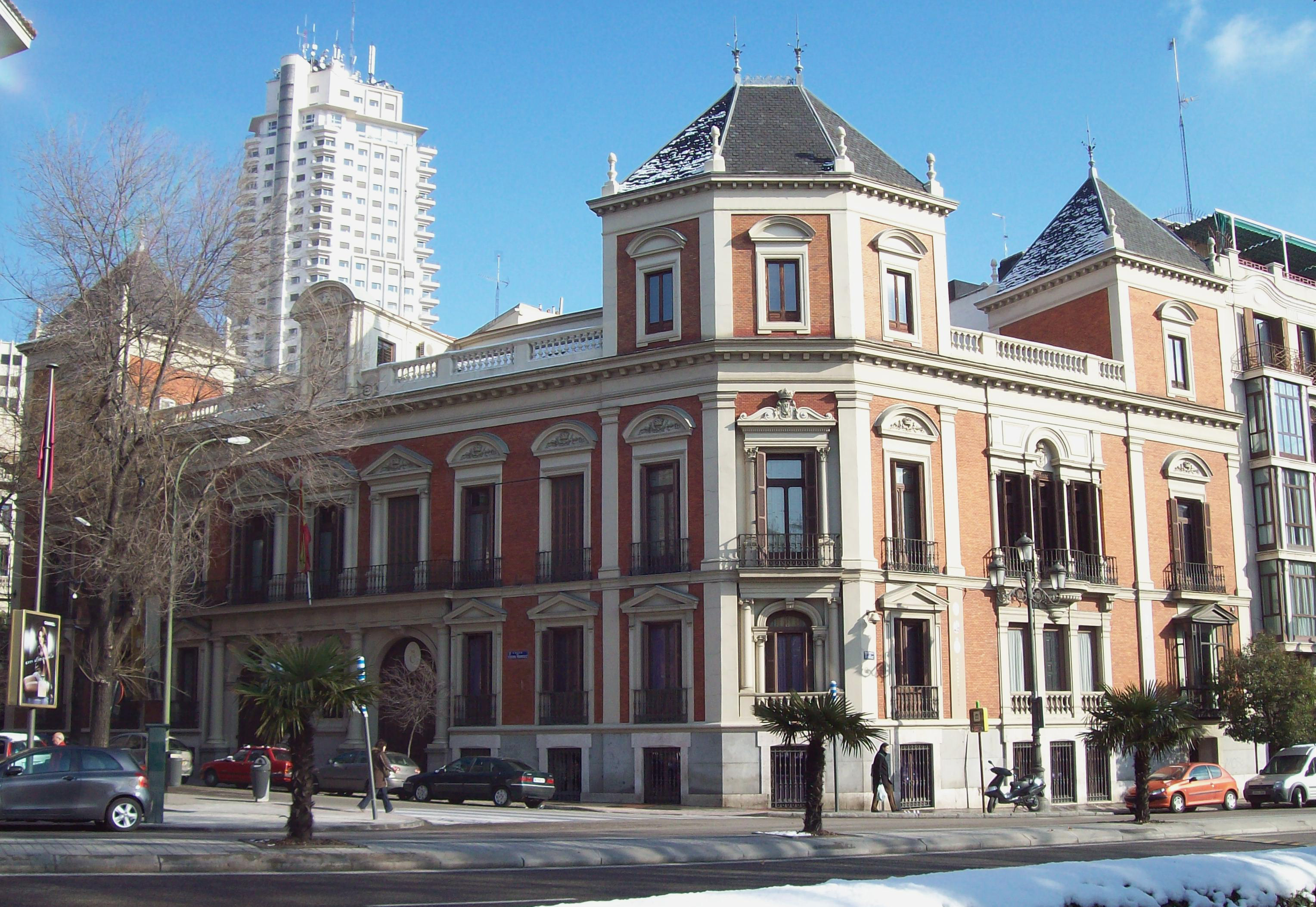 Façade of Cerralbo Museum, at 17 Calle de Ventura Rodríguez (street) in Madrid (Spain). Building was designed by architect Alejandro Sureda and built between 1883 and 1893 as a mansion for Enrique de Aguilera y Gamboa (1845–1922), 17th Marquis of Cerralbo. It was inaugurated as a museum in 1944, and declared an Artistic Historical Monument in 1962.